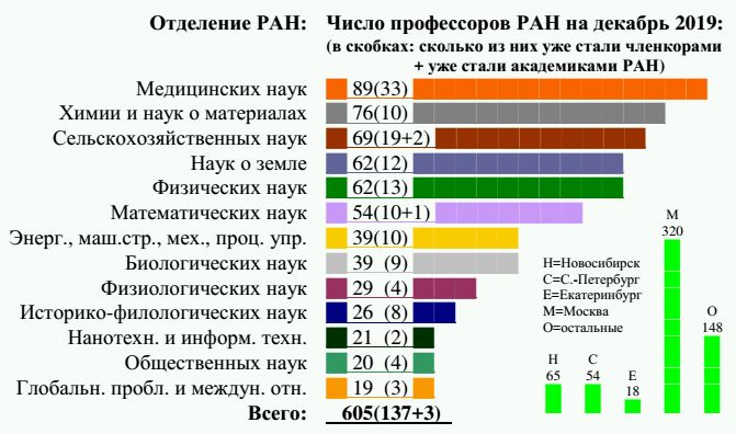 RAS Professors: statistical data (specialty, regions) as of December 2019, in Russian